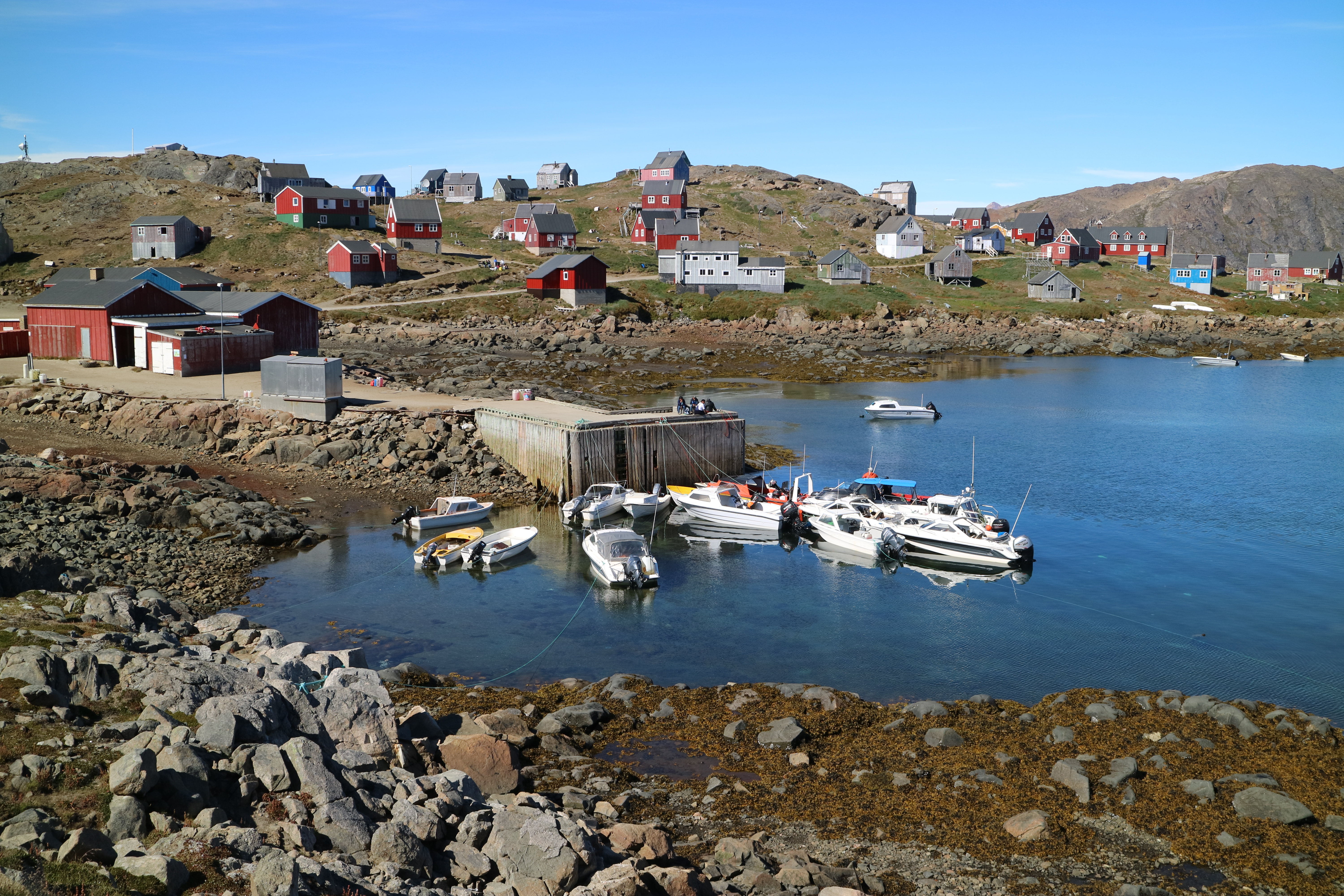 View over Kulusuk, South East Greenland